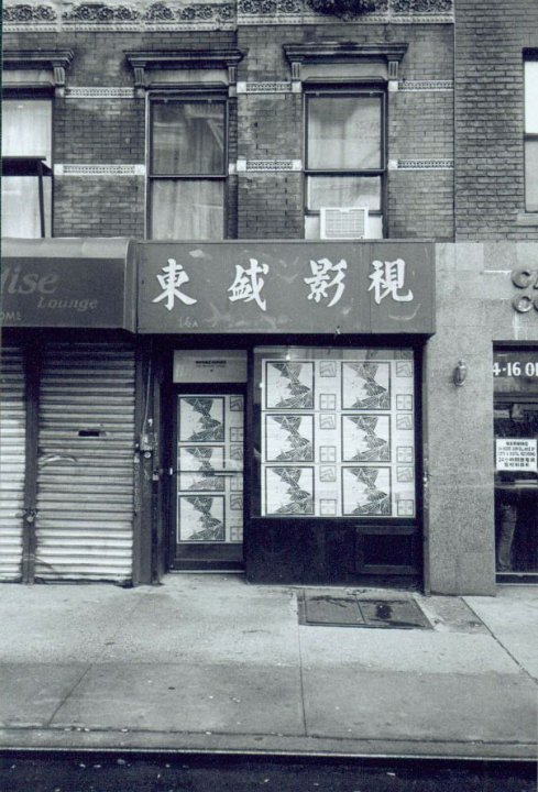 Front of Gallery